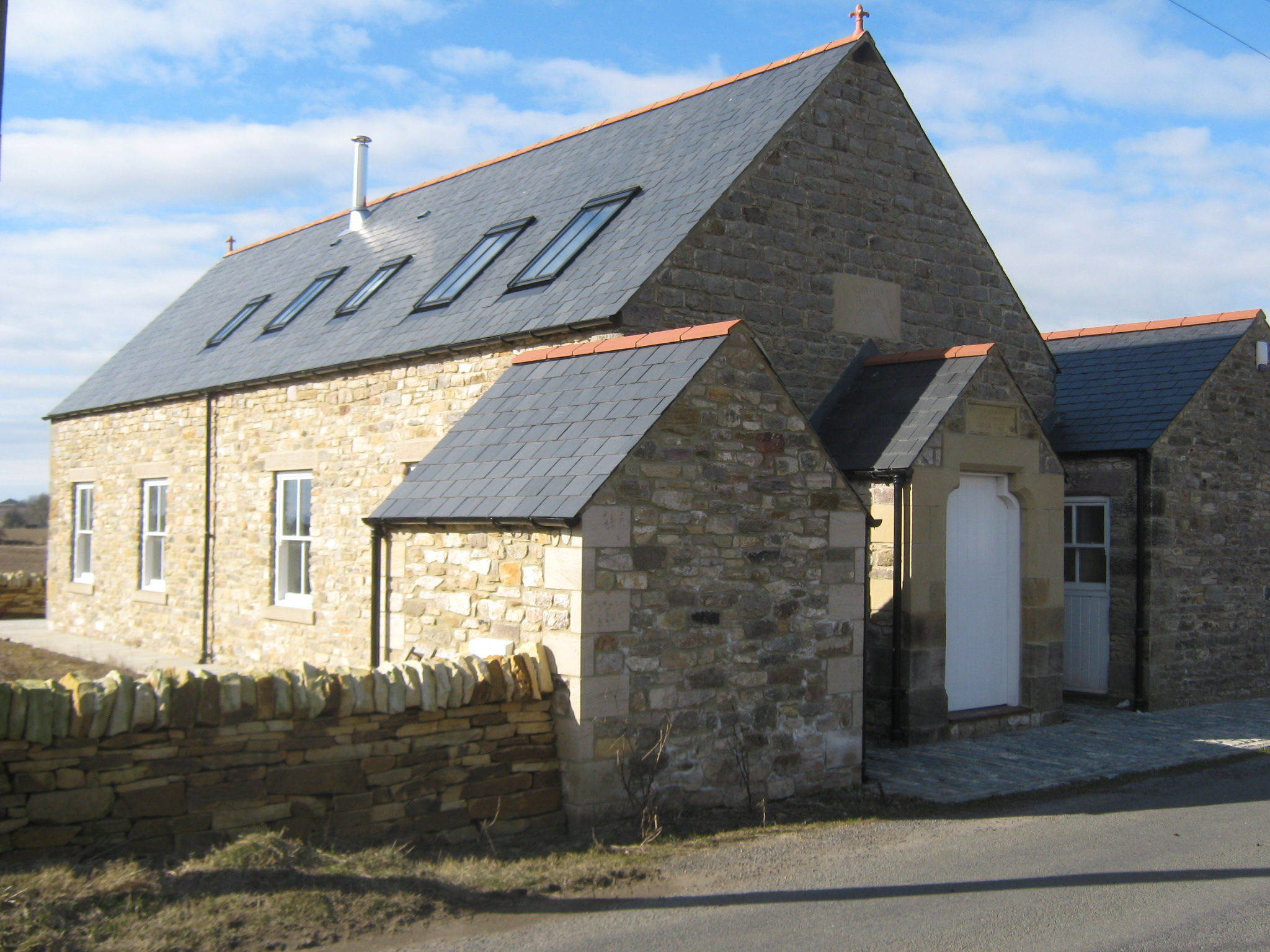 Chapel House 2007 at Houghton Bank This is the inscription on the stone above the front door of this new property build on the site of the United Methodist Free Church